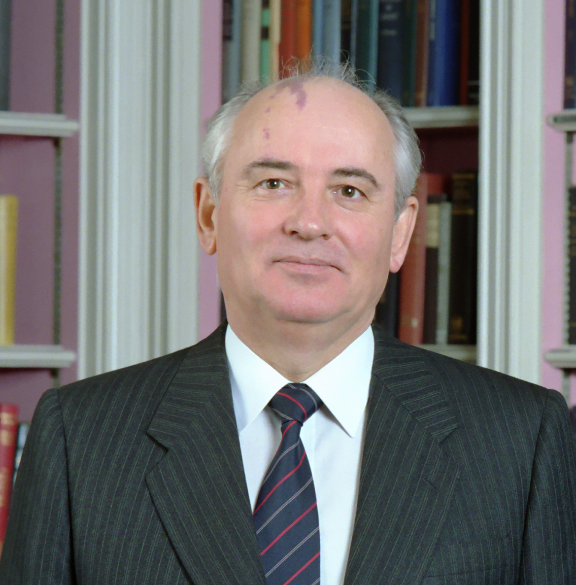 Soviet General Secretary Gorbachev in the White House Library